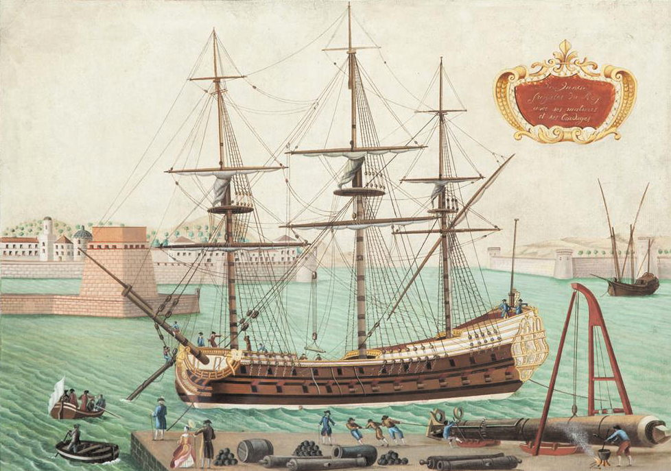 Drawing of the French ship of the line Junon